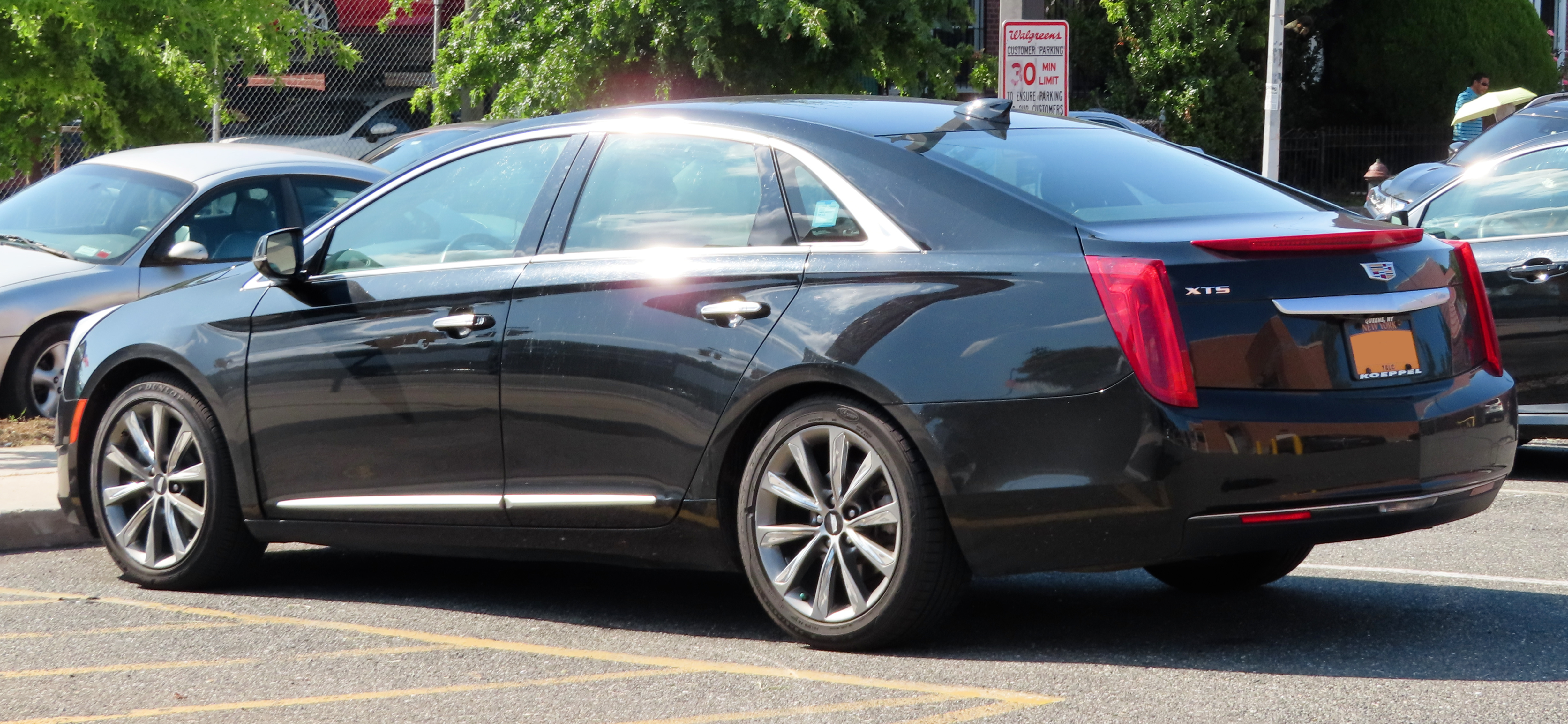 A 2016 Cadillac XTS photographed in Jackson Heights, Queens, New York, USA